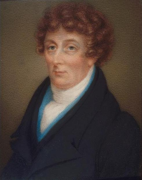 Painting, miniature, Portrait of Sir James Monk (1745/46-1826), Anonymous, 1775-1825, 7.9 x 6.1 cm